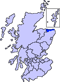 Aberdeenshire unitary council - Banff and Buchan Area